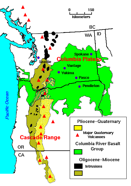 USGS map of volcanic areas in US Pacific Northwest Category:Plateaus